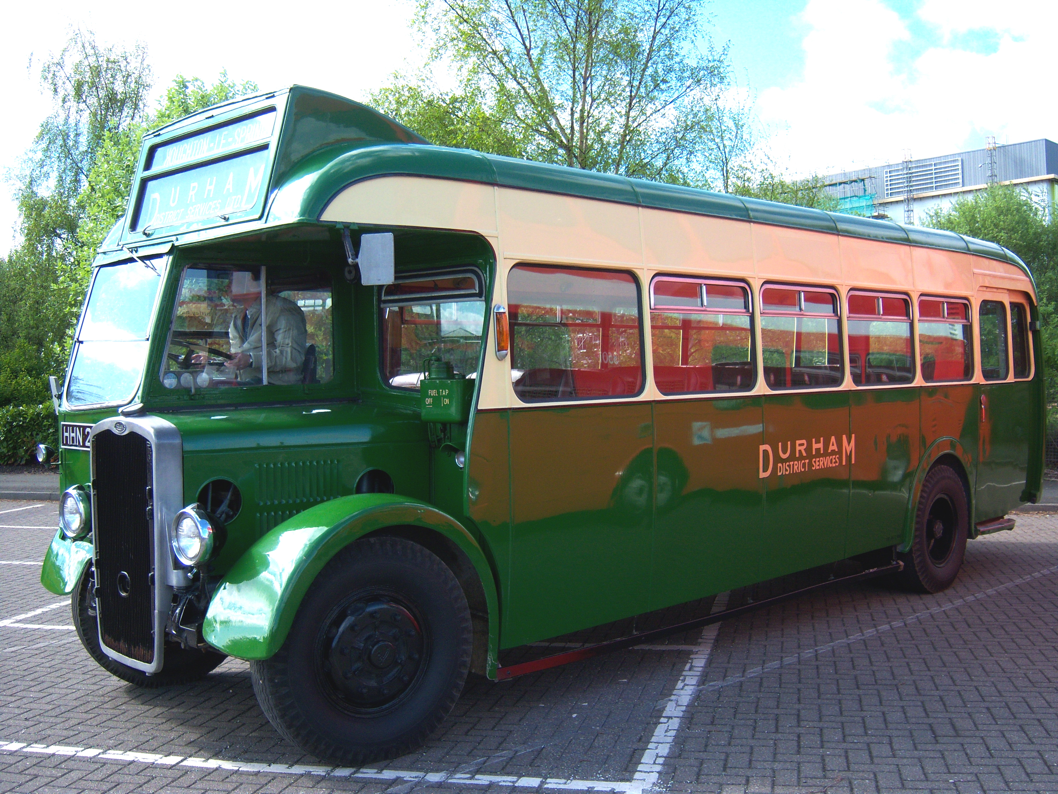 Preserved bus on display at the 2009 Metrocentre bus rally.